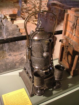 New Orleans Mint. A water cooler given as a gift to the head of the coining department at the New Orleans Mint in 1891 by his staff. Copyright (c) 2005 Peter Clericuzio. Permission is granted to copy, distribute and/or modify this document under the terms of the GNU Free Documentation License, Version 1.2 or any later version published by the Free Software Foundation; with no Invariant Sections, no Front-Cover Texts, and no Back-Cover Texts. A copy of the license is included in the section entitled "GNU Free Documentation License". Photo taken by Peter Clericuzio, 22 June 2005, using a Fuji FinePix S5000 digital camera.